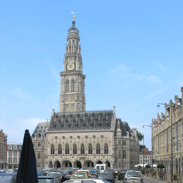 Town Hall of Arras, France.